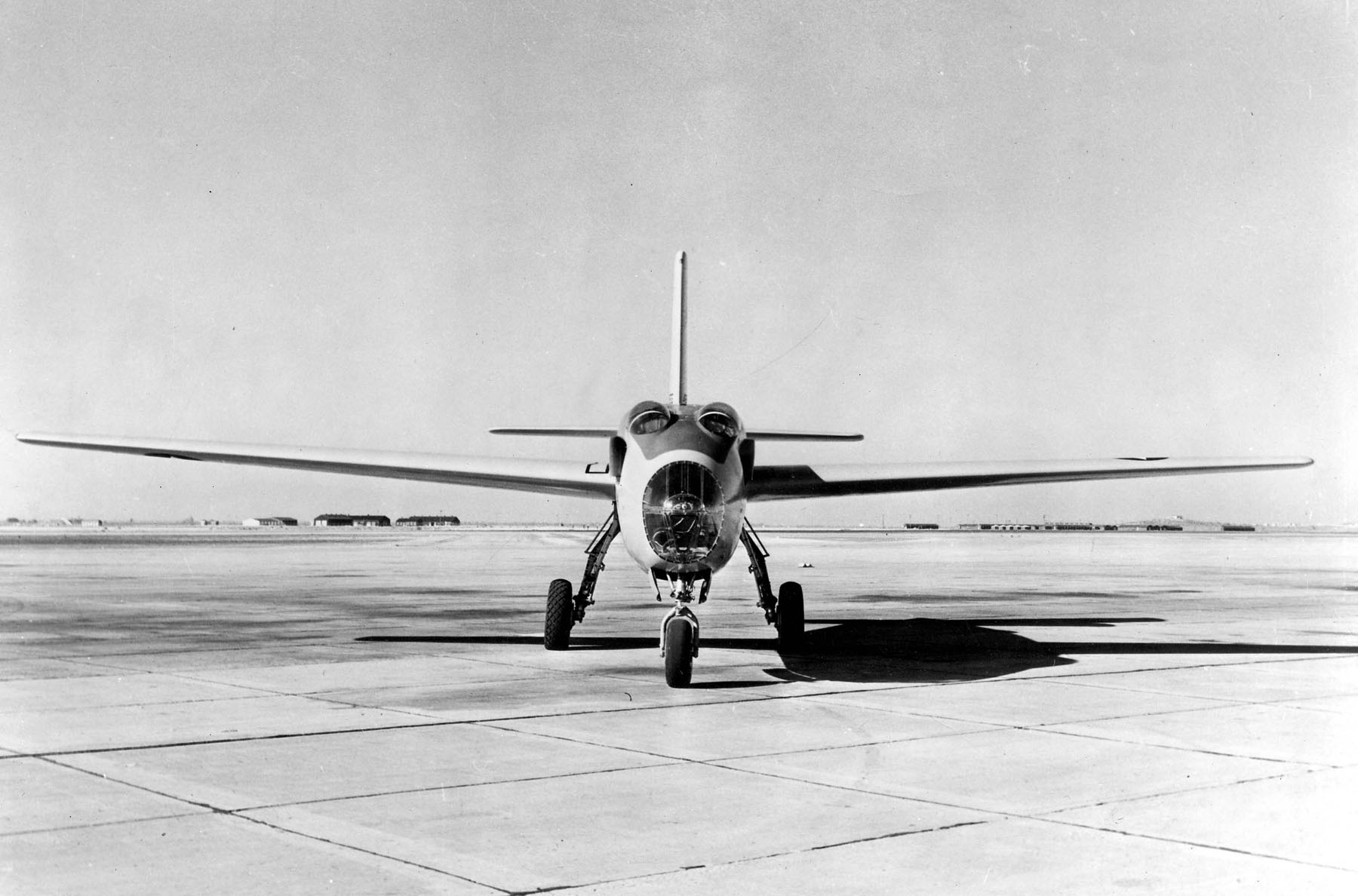 Douglas XB-43